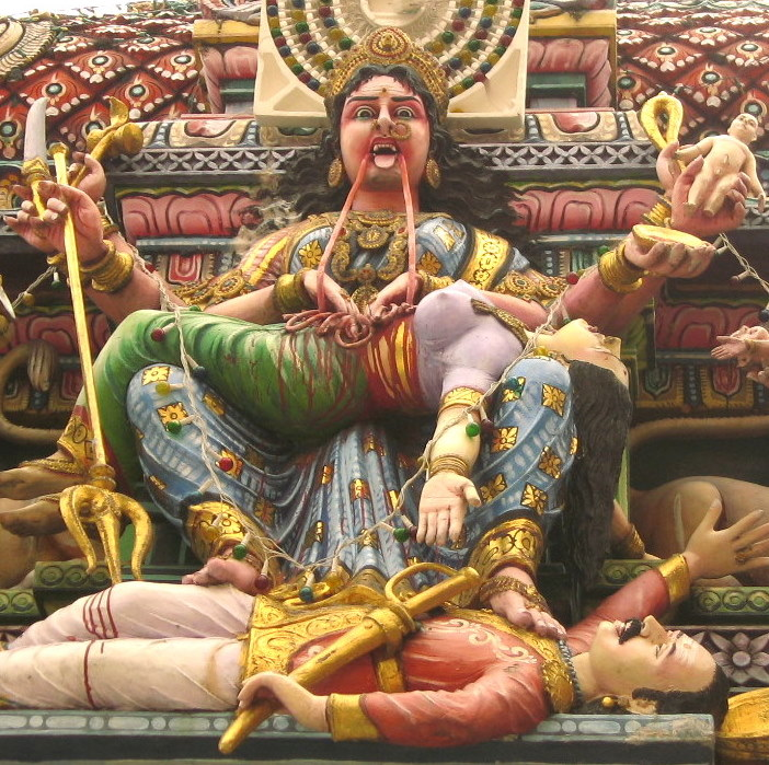 Periyachi, Sri Veerama Kaliamman Temple, Singapore. See where this picture was taken at "